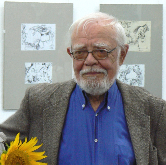 Bulgarian painter and caricaturist Velin Andreev on the opening of a joint exhibition on 3 September 2010 in Sofia, Bulgaria